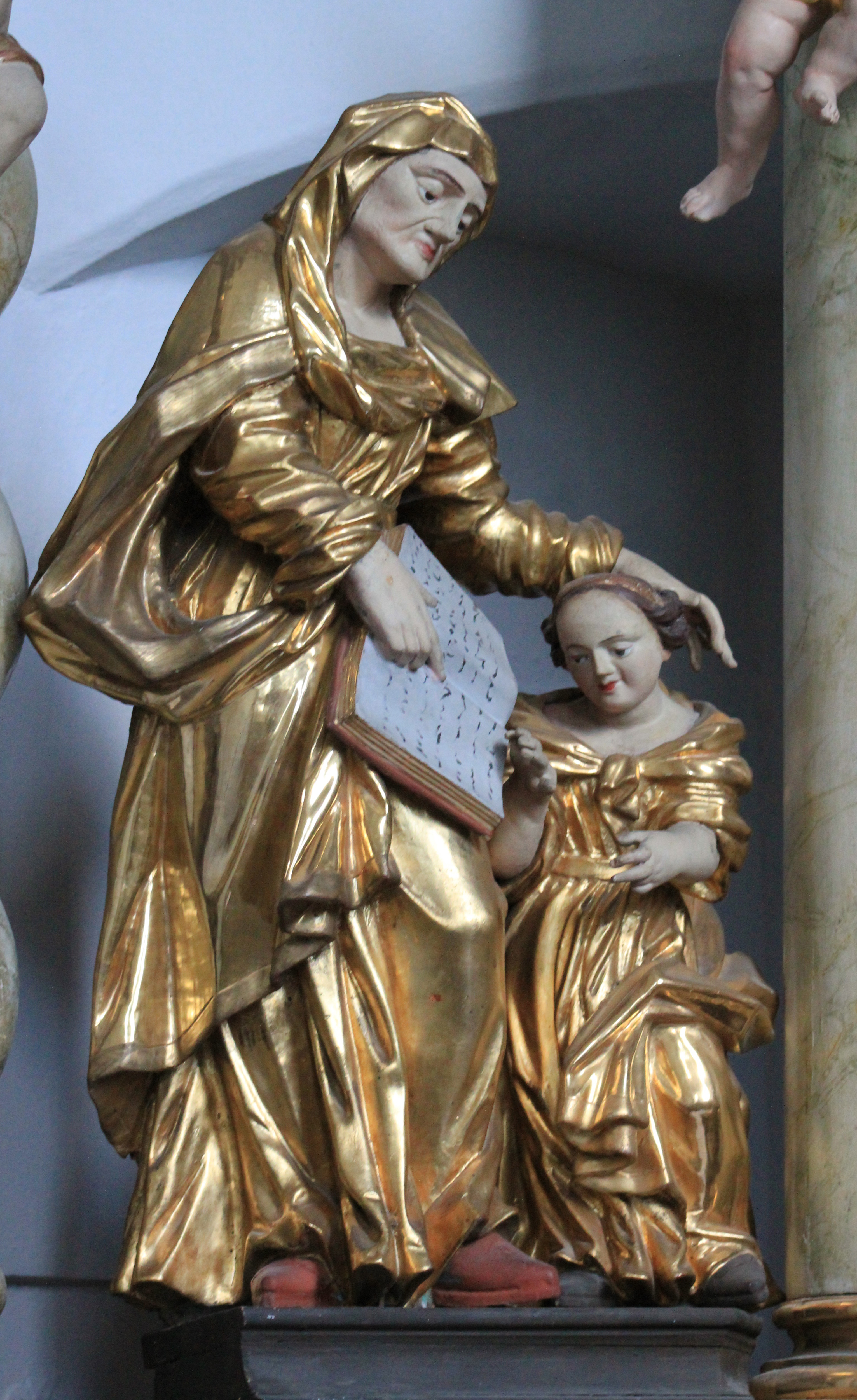 Parish church in Gmünd - side altar - detail